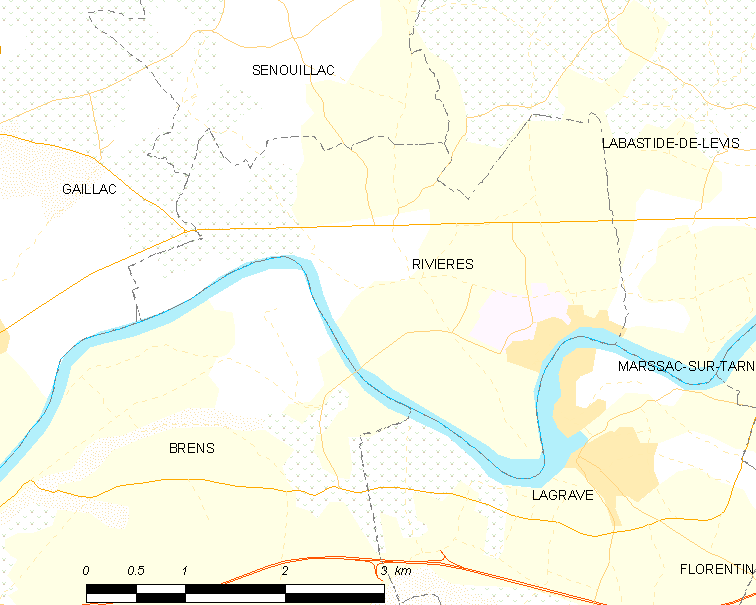 Map of French municipality Rivières